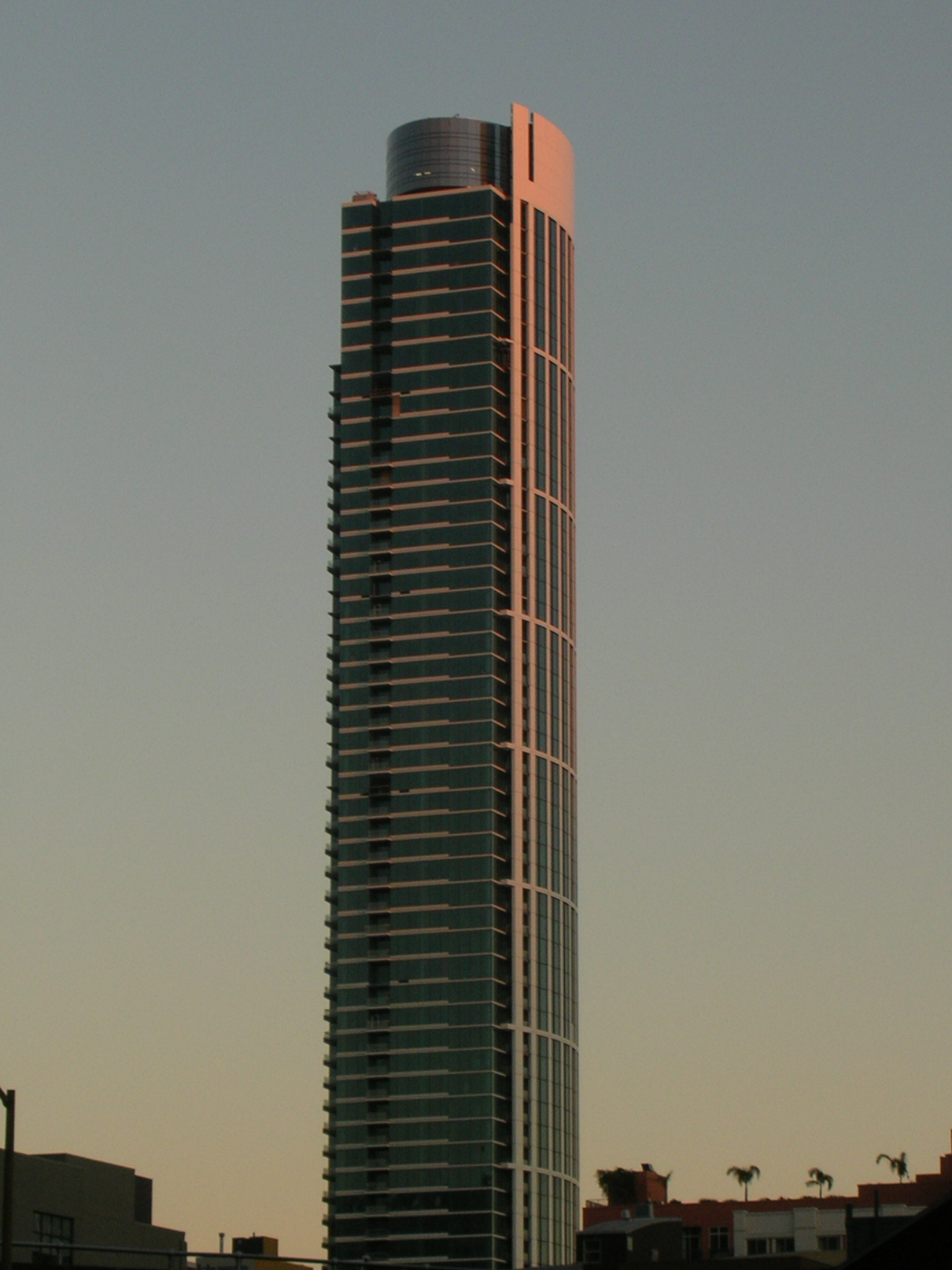 One Rincon Hill South Tower (without the crane) standing tall above Rincon Hill during sunset. San Francisco